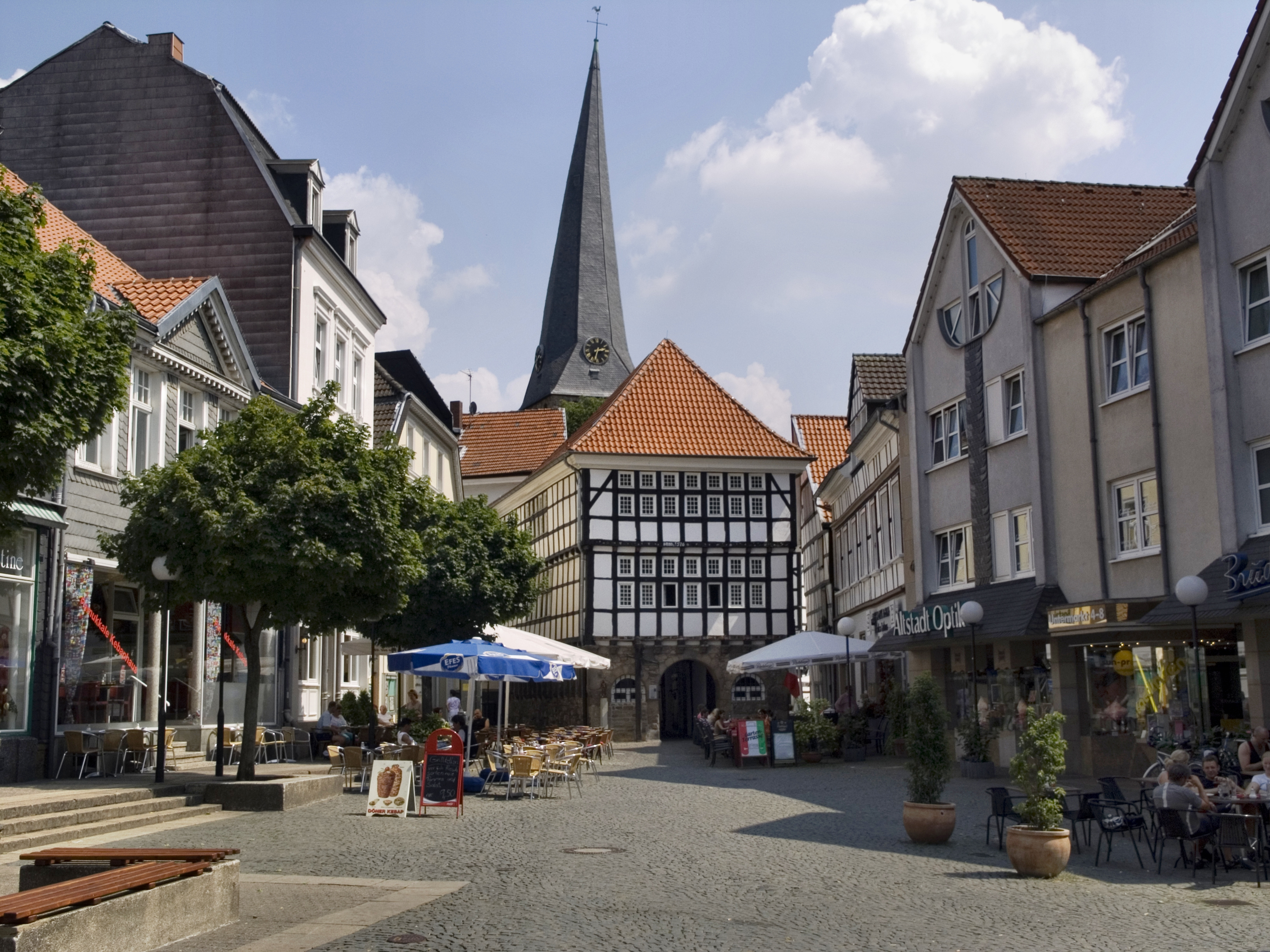 Germany, NRW, Hattingen. Altstadt